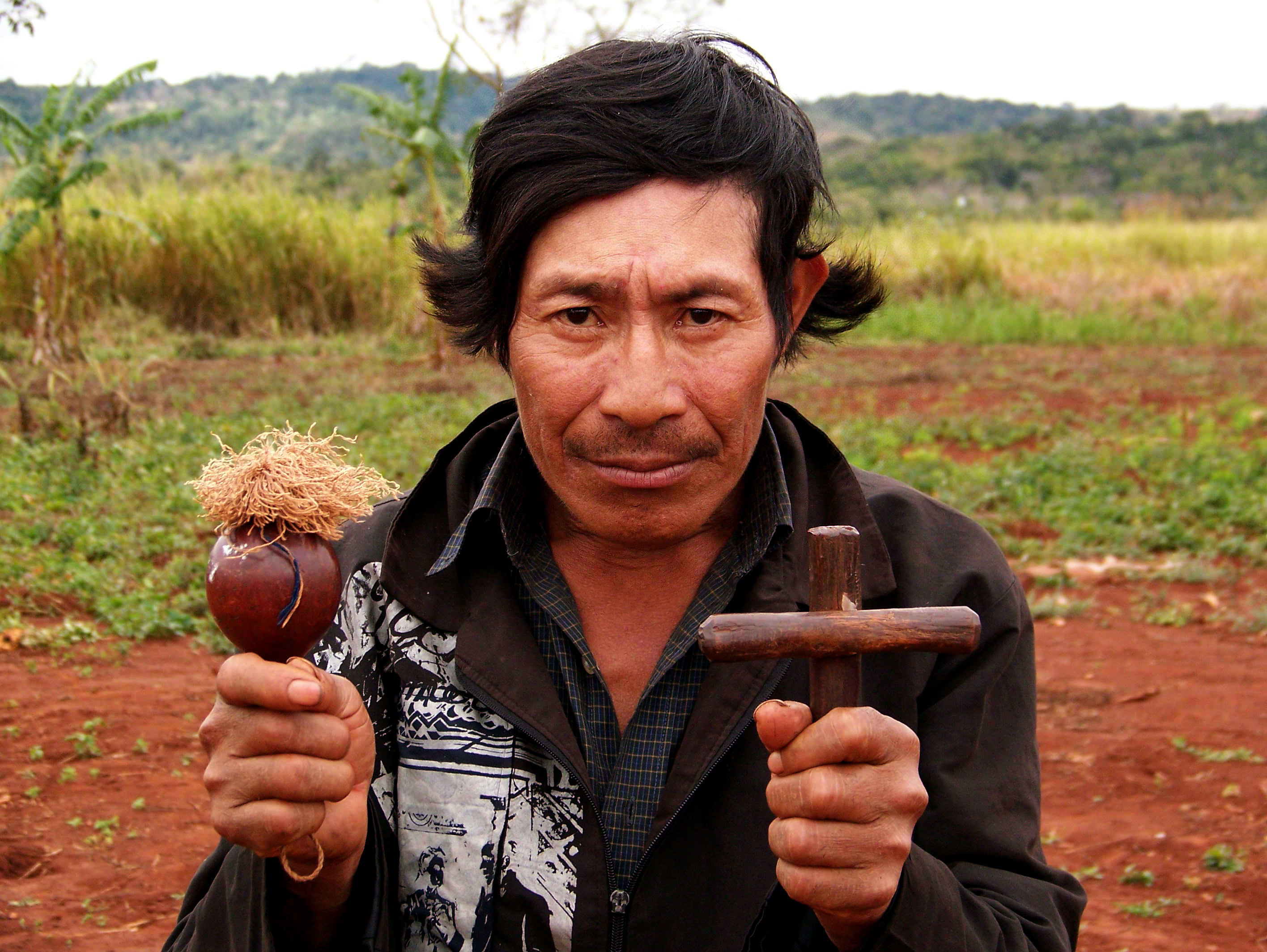 Guarani Shaman holding cross and rattle. The cross is a religious symbol that predates the arrival of Christianity. Paraguay